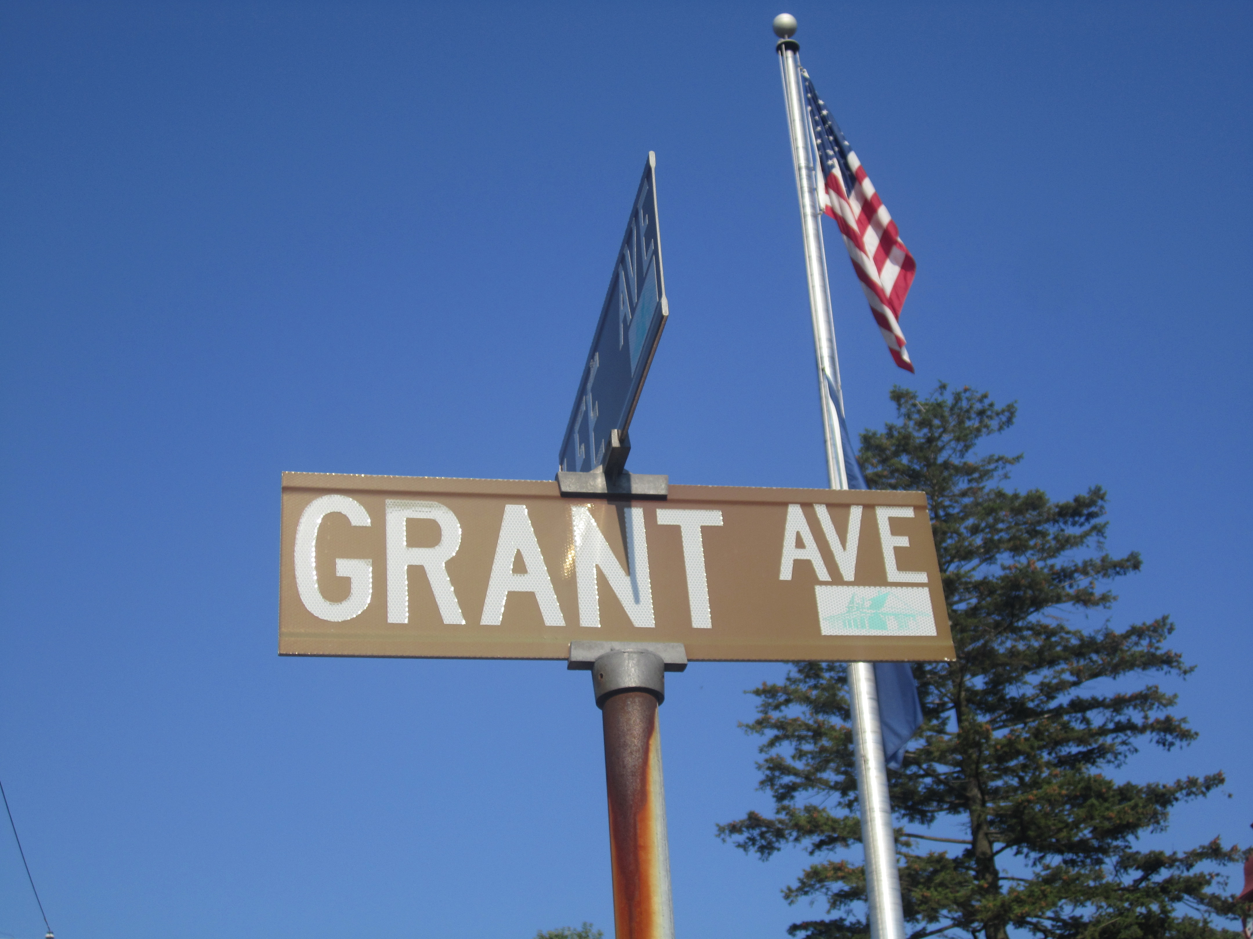 I took photo of Grant Avenue sign in Manassas, VA, with Canon camera.